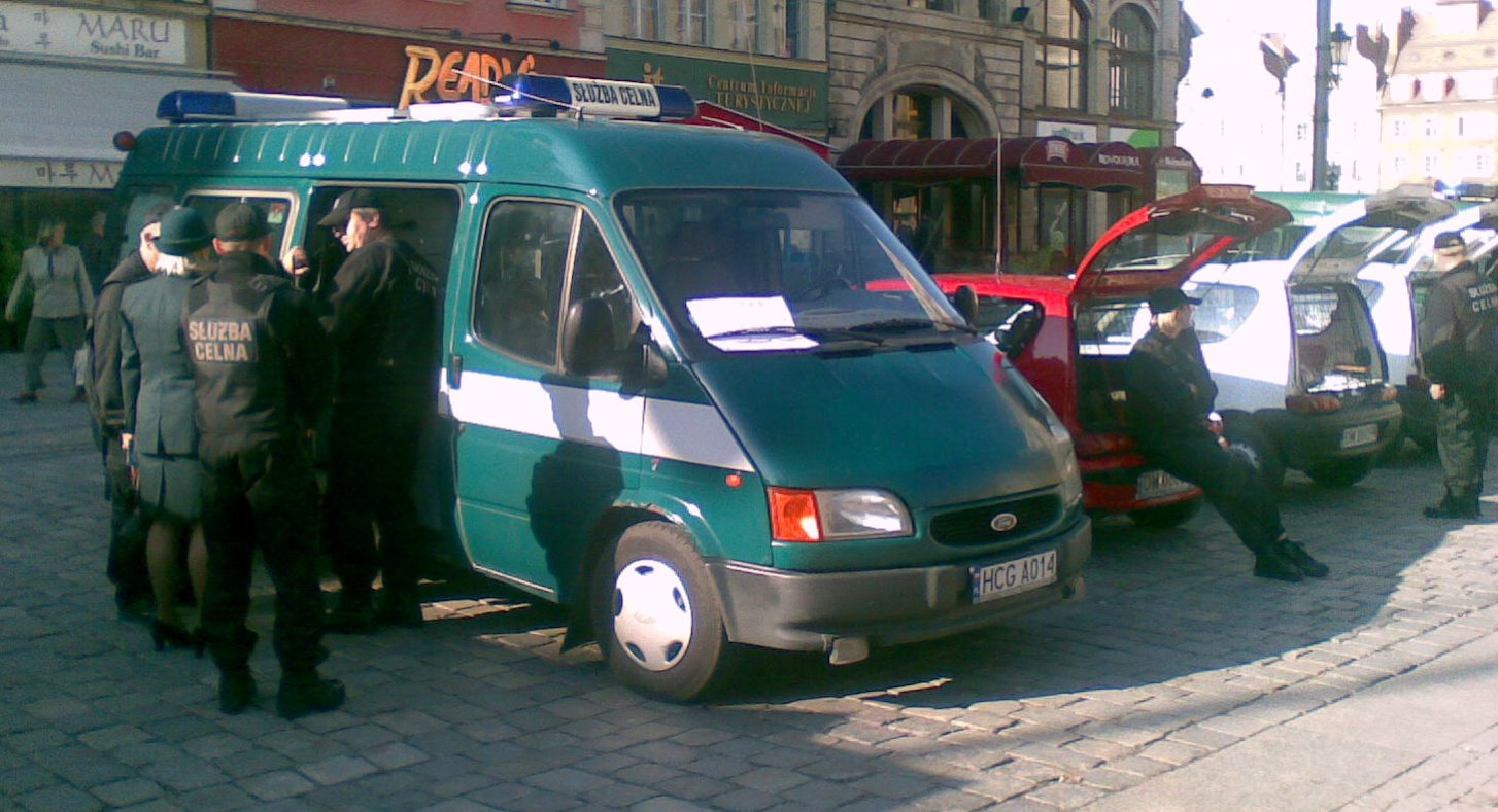 Ford Transit - vehicle of Customs service in Poland